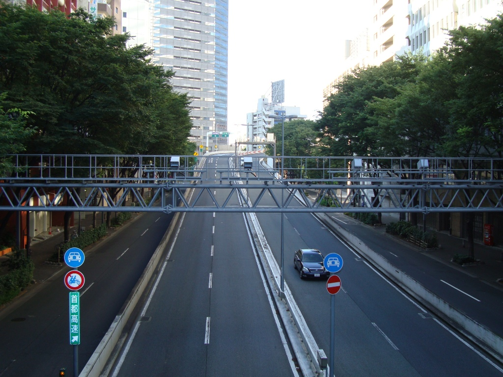 Shutokosoku expressway's Shinjuku entrance ramp in Nishi-Shinjuku skyscraper district (Route 3)